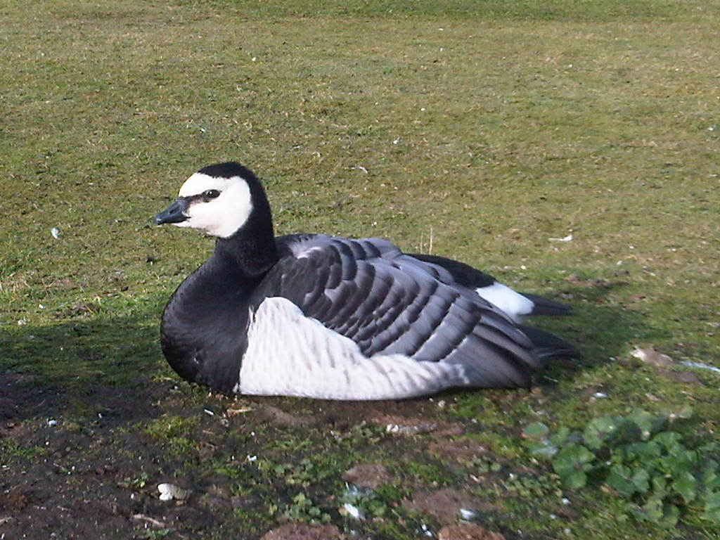 Barnacle goose (Branta leucopsis) at the WWT London Wetland Centre in England.